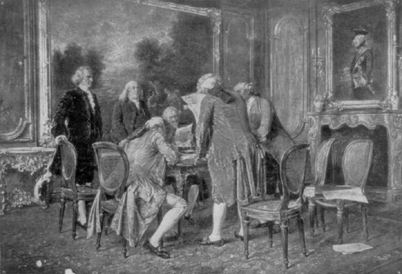 Signing of the preliminary Treaty of Paris, November 30, 1782